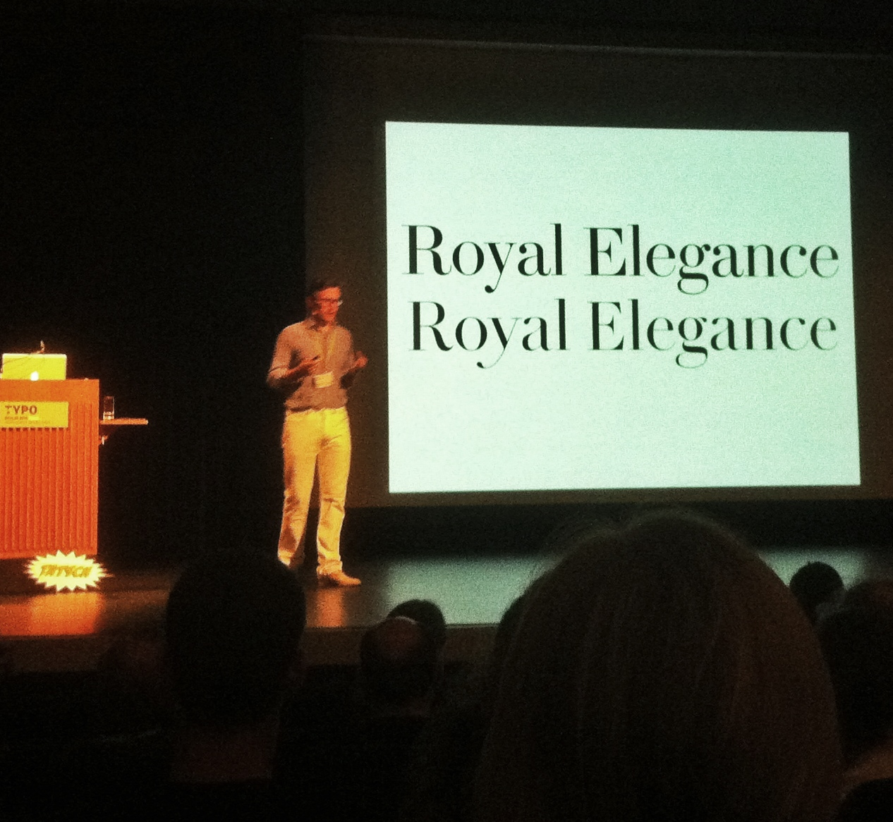 Designer Paul Barnes speaking on the differences between printing and carved lettering in 2013.